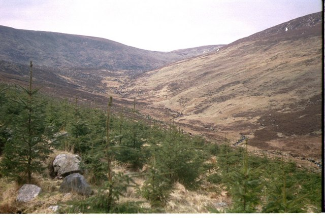 Corrigasleggaun. The Carrawaystick Brook below Kelly's Lough